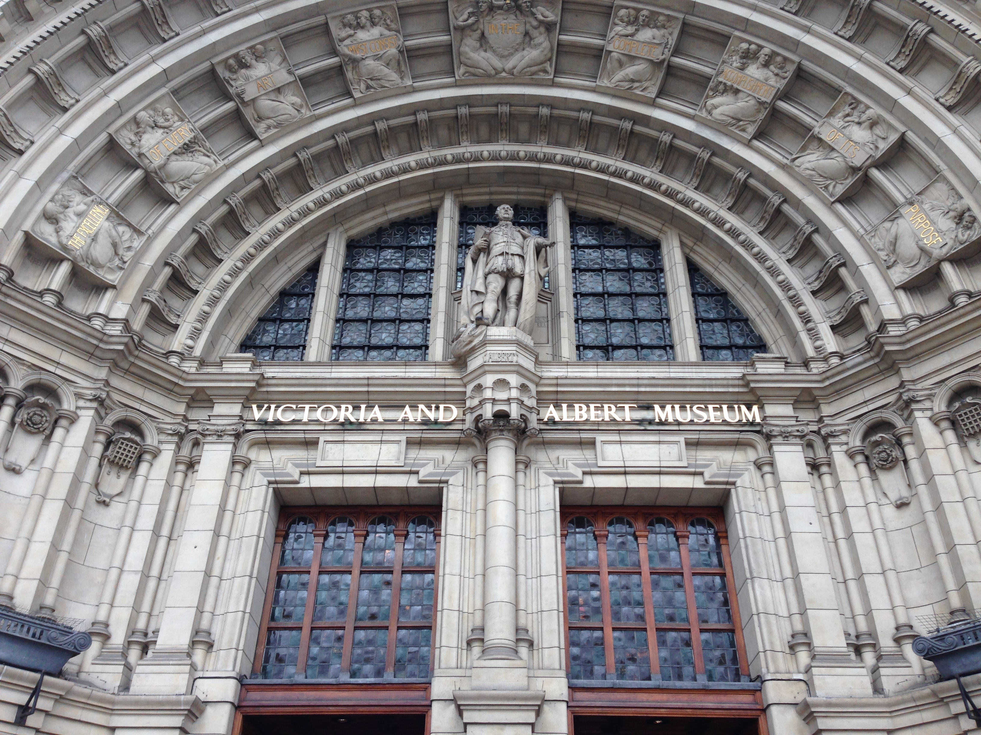 Details of the main entrance of Victoria and Albert Museum